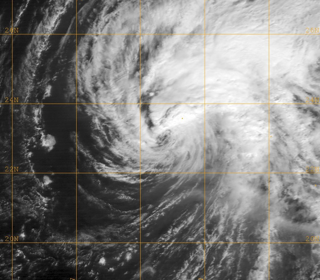 Satellite image of Tropical Storm Neki near the French Frigate Shoals in Hawaii on October 23, 2009